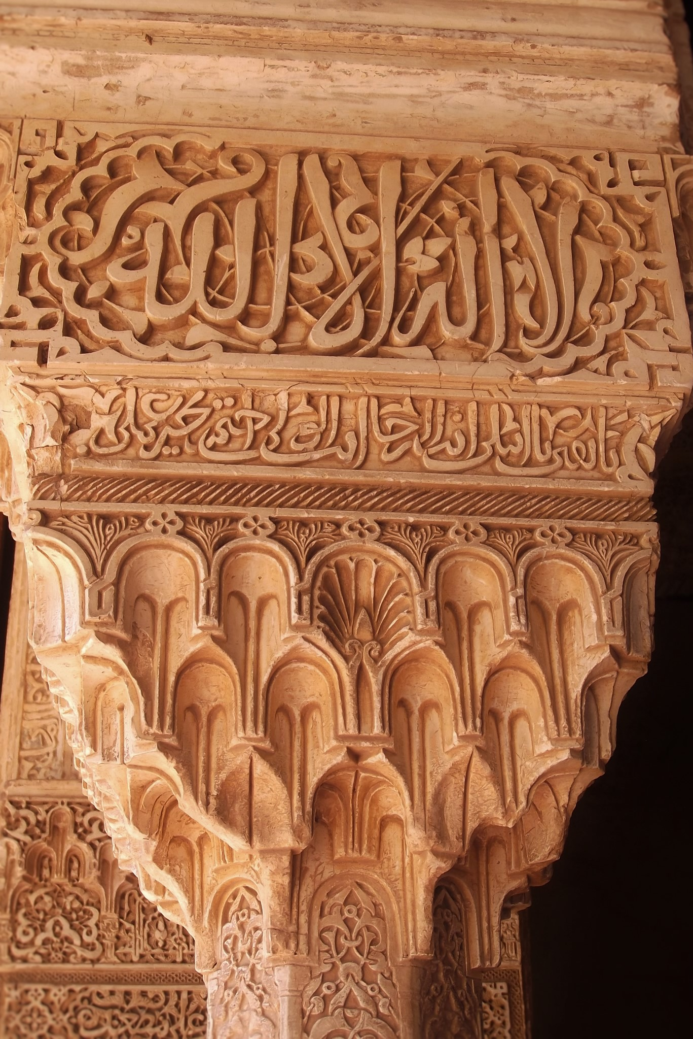 One of the inscriptions and the word (There is no god but God) on a palace columns Committee Corporal in Alhambra in Granada.